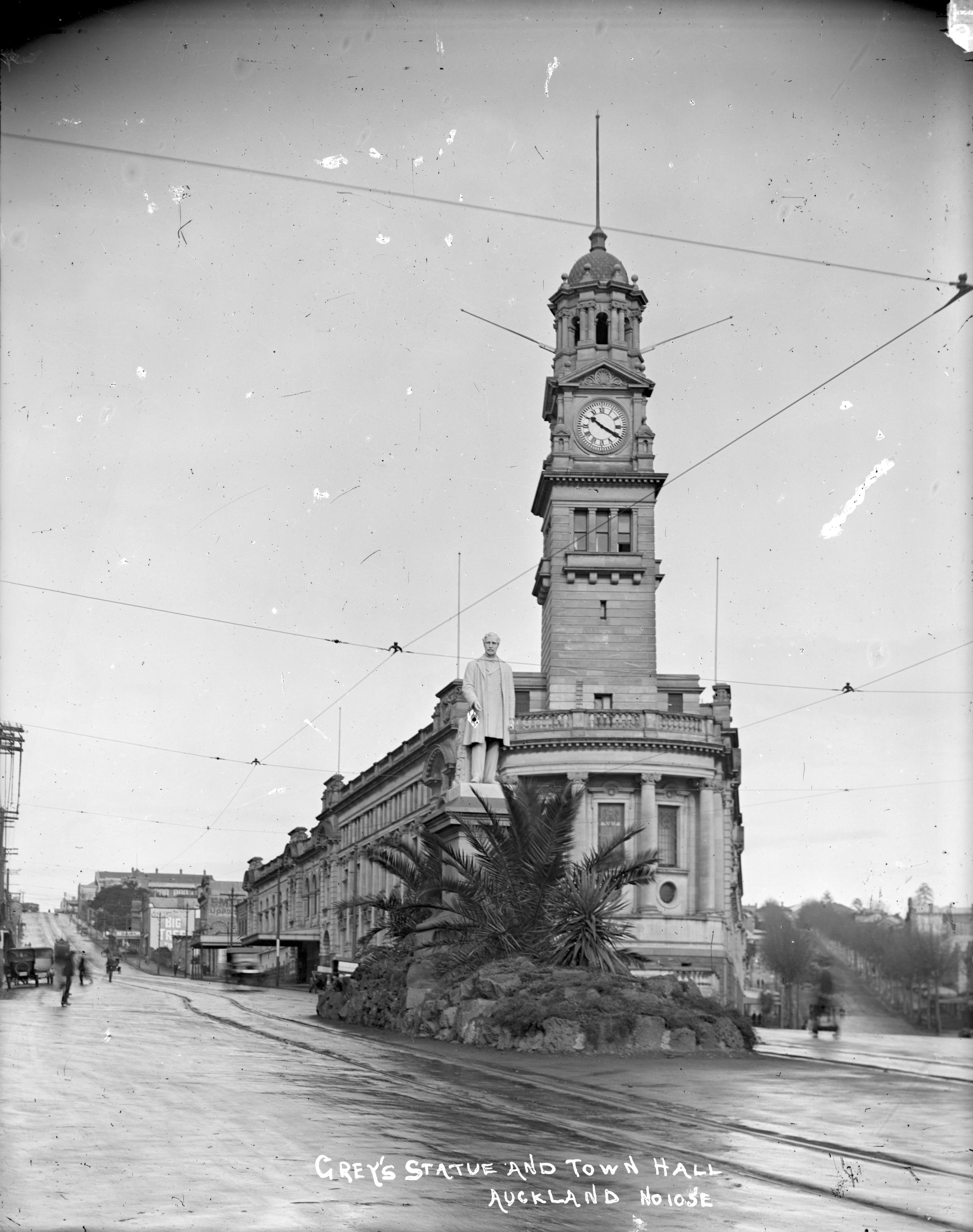 View of Auckland Town Hall taken from Queen Street with the statue of Sir George Grey in the foreground. Greys Avenue can be seen on the right of the Town Hall. Photograph taken by William A Price. Inscriptions: Inscribed - Photographer's title on negative -bottom centre: Grey's statue and Town Hall. Auckland. 105E [?]. William Archer Price lived and practised in Queen Street, Northcote, 1909-1910. Source: New Zealand Post Office directories Quantity: 1 b&w original negative(s). Physical Description: Dry plate glass negative 4.5 x 6.5 inches View of Auckland Town Hall, Auckland and statue of Sir George Grey. Price, William Archer, 1866-1948 :Collection of post card negatives. Ref: 1/2-000166-G. Alexander Turnbull Library, Wellington, New Zealand.